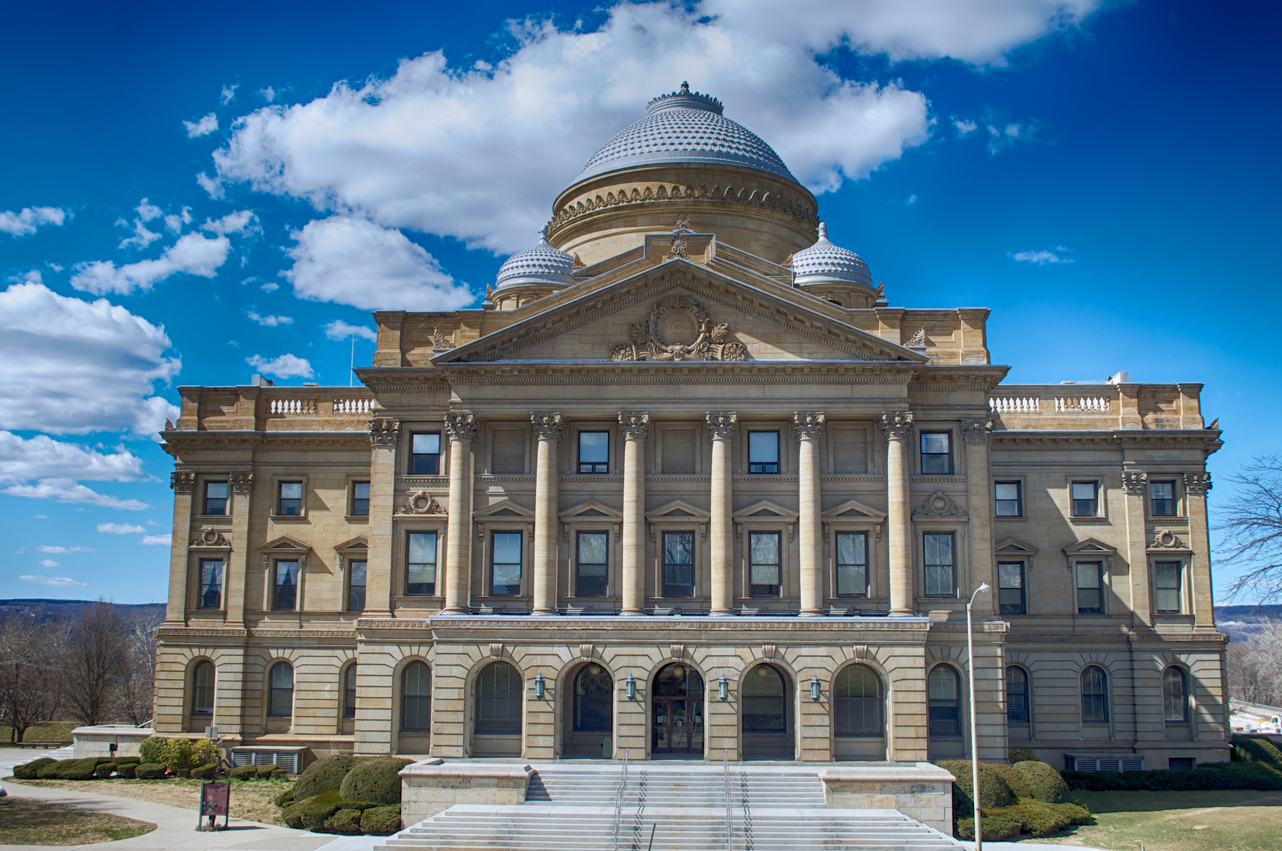 Luzerne County Courthouse on the NRHP since September 4, 1980 on North River Street, Wilkes-Barre, Pennsylvania